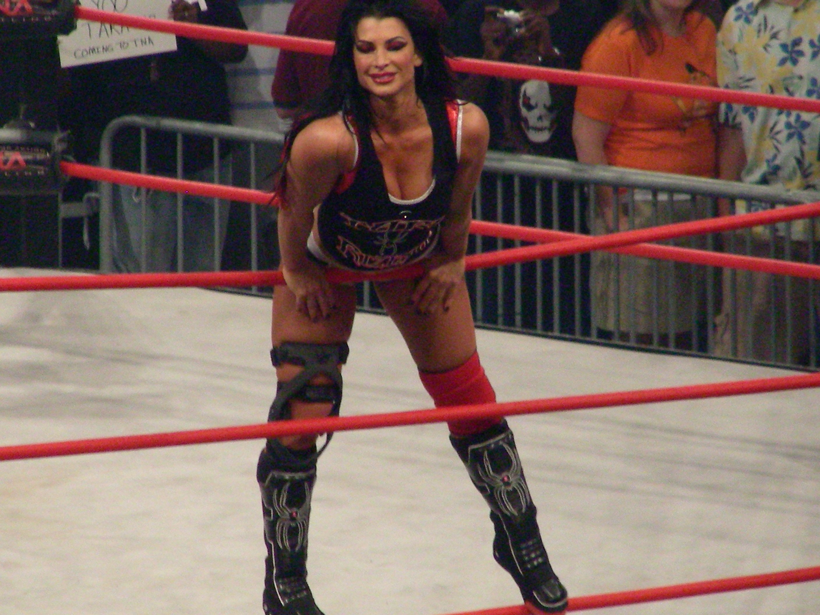 tara poses for the crowd, Tara vs. Angelina for the Knockout Title!